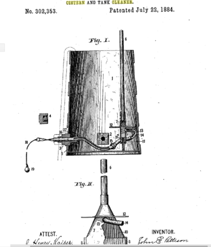 Sketch/drawing of proposed Cistern and tank cleaner